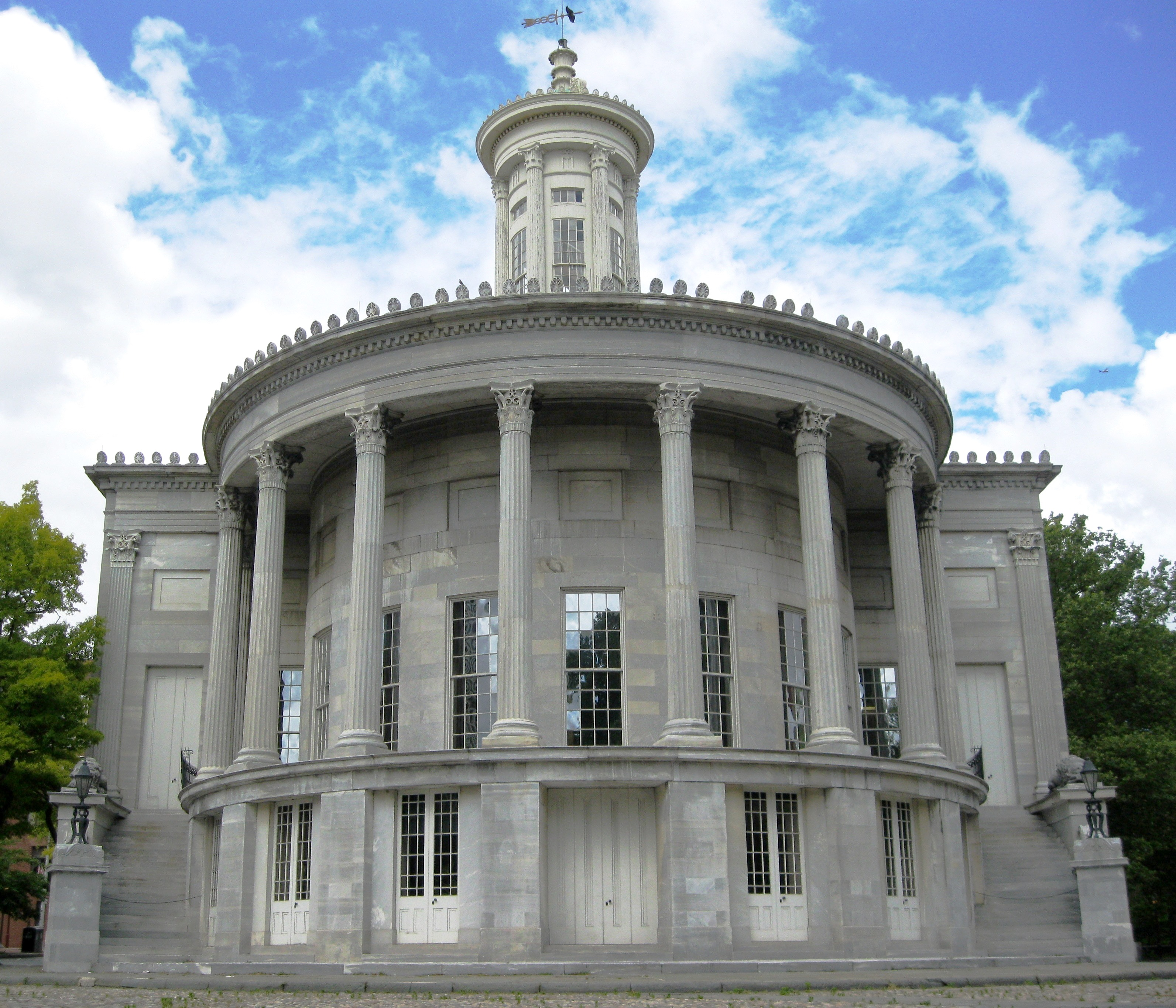 Merchants' Exchange Building